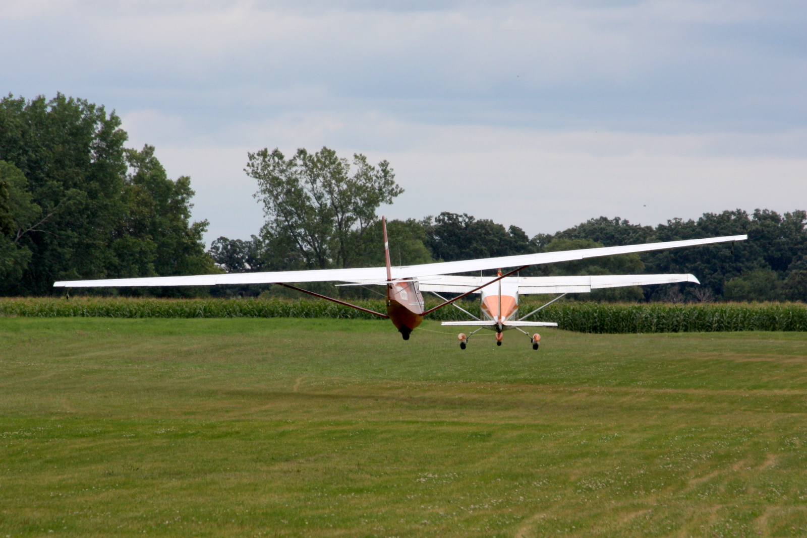 Schweizer SGS 2-33A being aerotowed